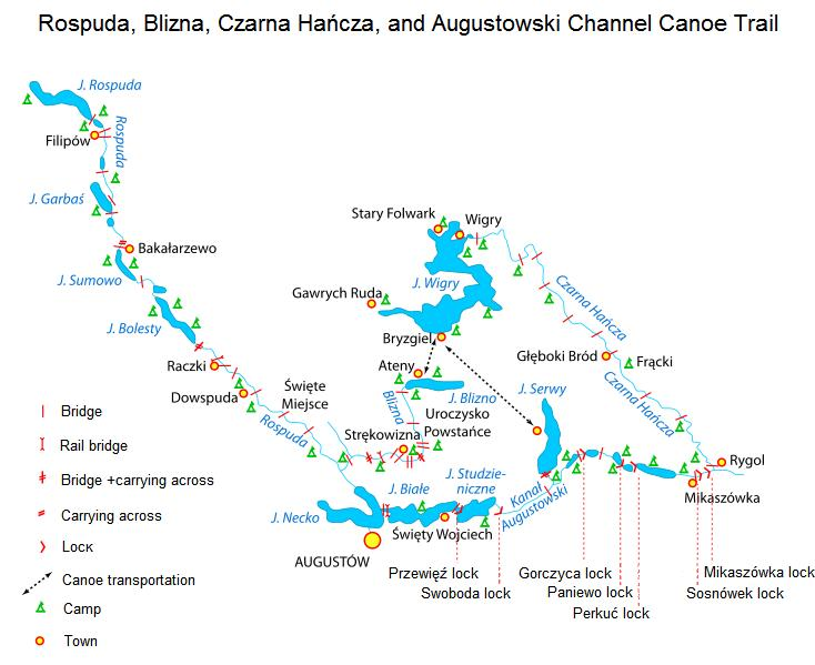 Canoe way on Rospuda, Blizna, Czarna Hancza rivers and on the Augustow Chanel (Poland)